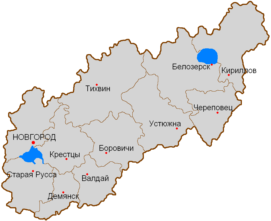 Administrative division of the Novgorod Governorate